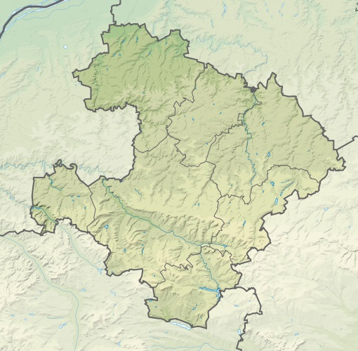 Relief location map Razgrad Province, Bulgaria. Geographic limits of the map